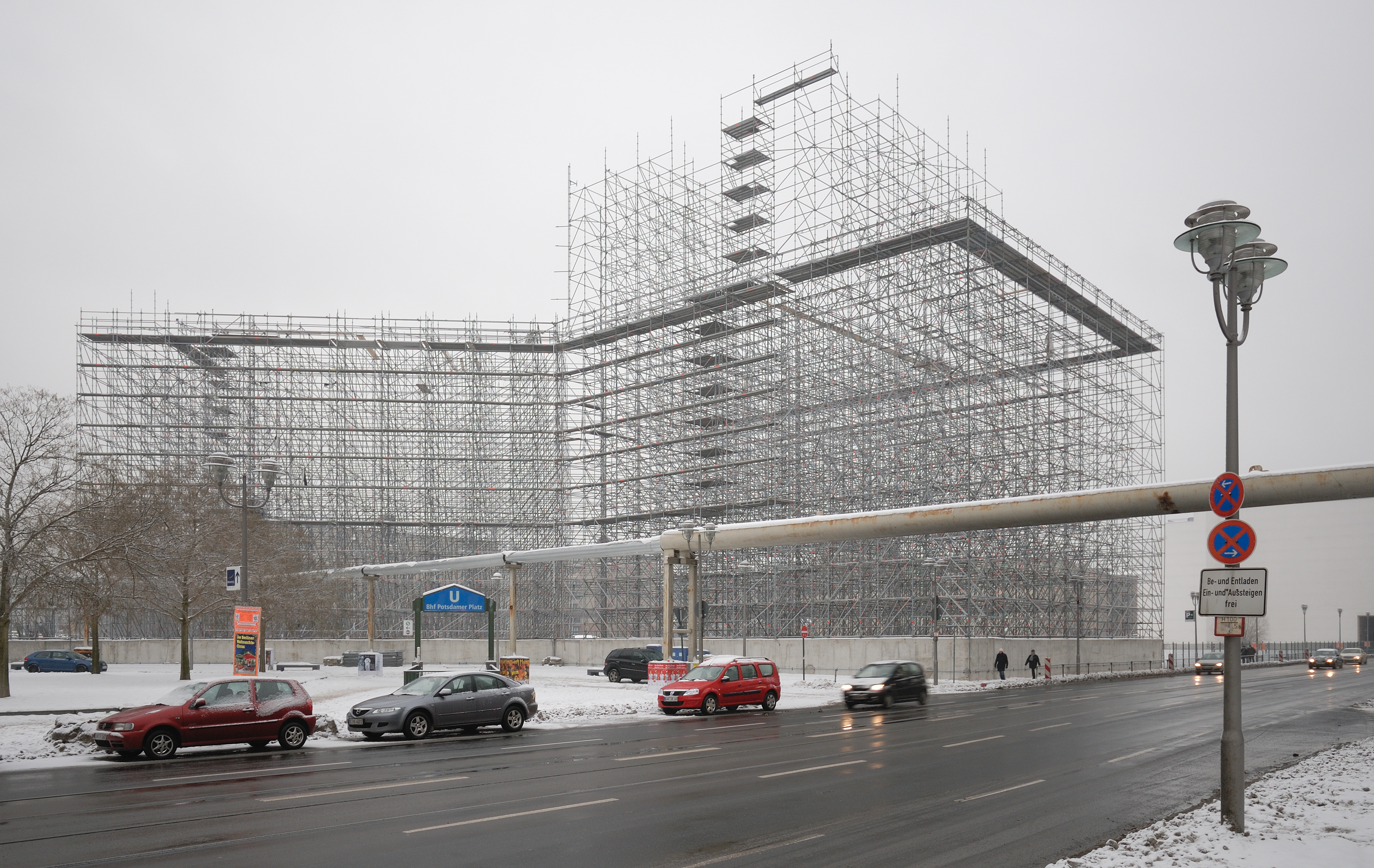 Scaffolding on the area of the former Wertheim store at Leipziger Platz in Berlin, which was Europe's biggest one until it was destroyed in WW II. Orco Property Group acquired the lot and planned a new store. The scaffolding was supposed to indicate the size of the new building by Kleihues + Kleishues (width 105 m, height 38 m). The financial crisis forced Orco to sell the lot to High Gain House Investments GmbH (HGHI, CEO Harald G. Huth). Apparently HGHI wants to build a store with 36,000 sqm to be opened in 2012.